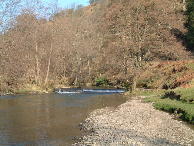 River Edw at Aberedw Radnorshire.